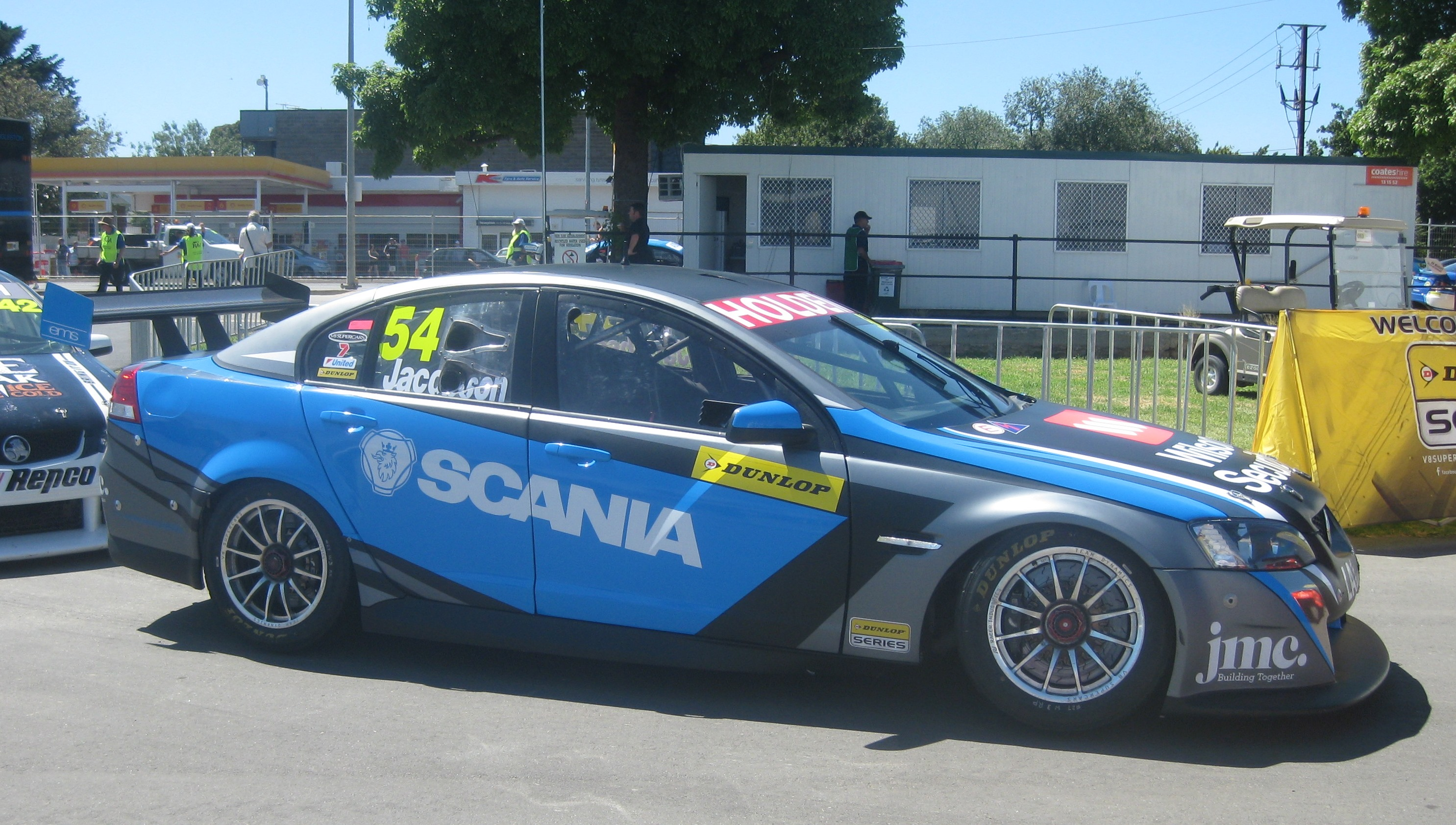 Holden VE Commodore of Garry Jacobson. Round 1, 2014 Dunlop Series, Adelaide Parklands Circuit.